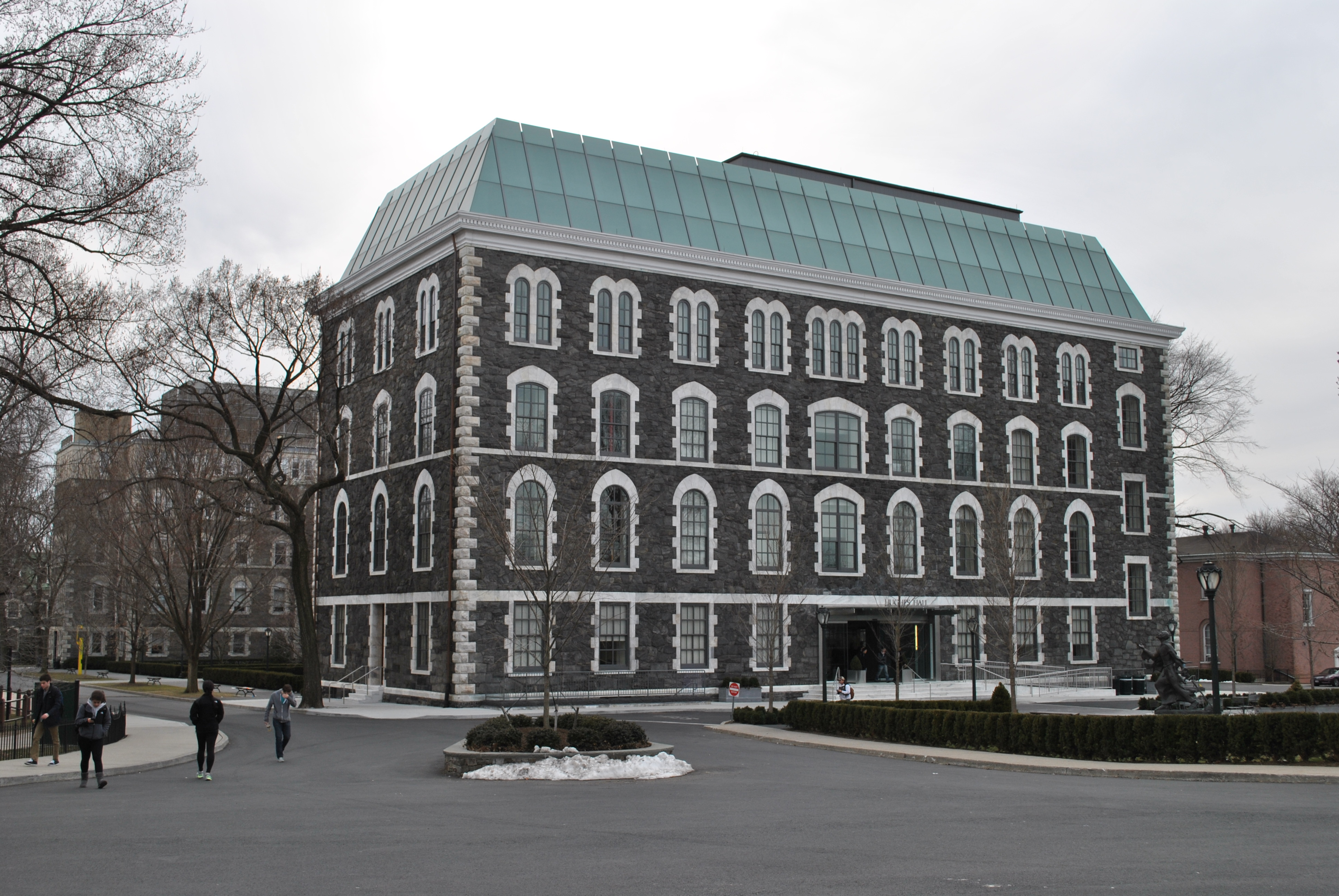 Fordham University Undergrad Biz School